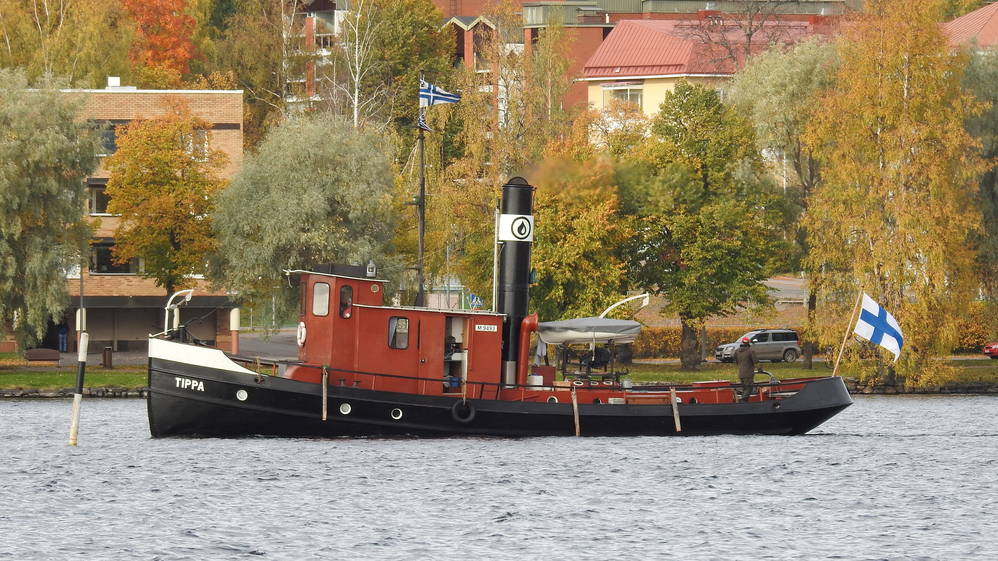 S/S Tippa (Pihlajavesi, Karvalakkiregatta 2016)